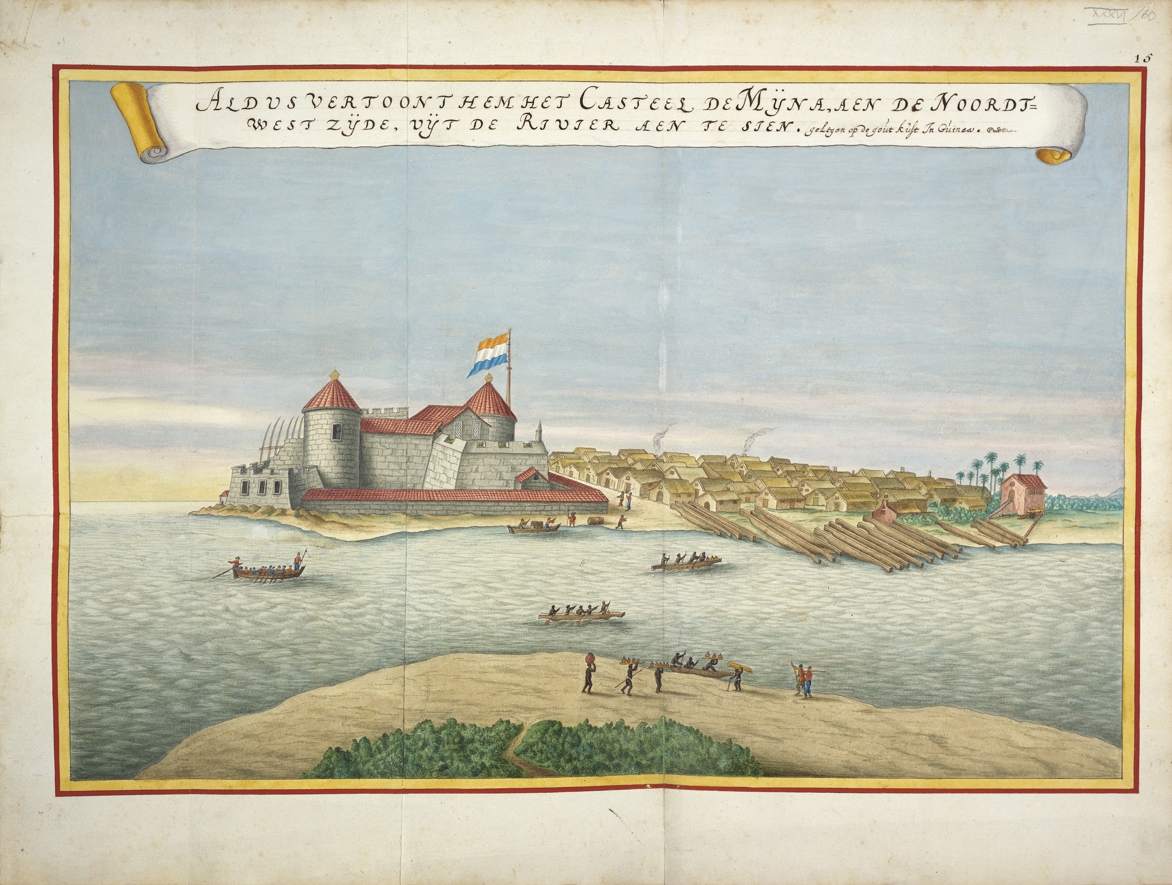 View of the castle of Elmina on the north-west side, seen from the river. Located on the gold coast in Guinea.